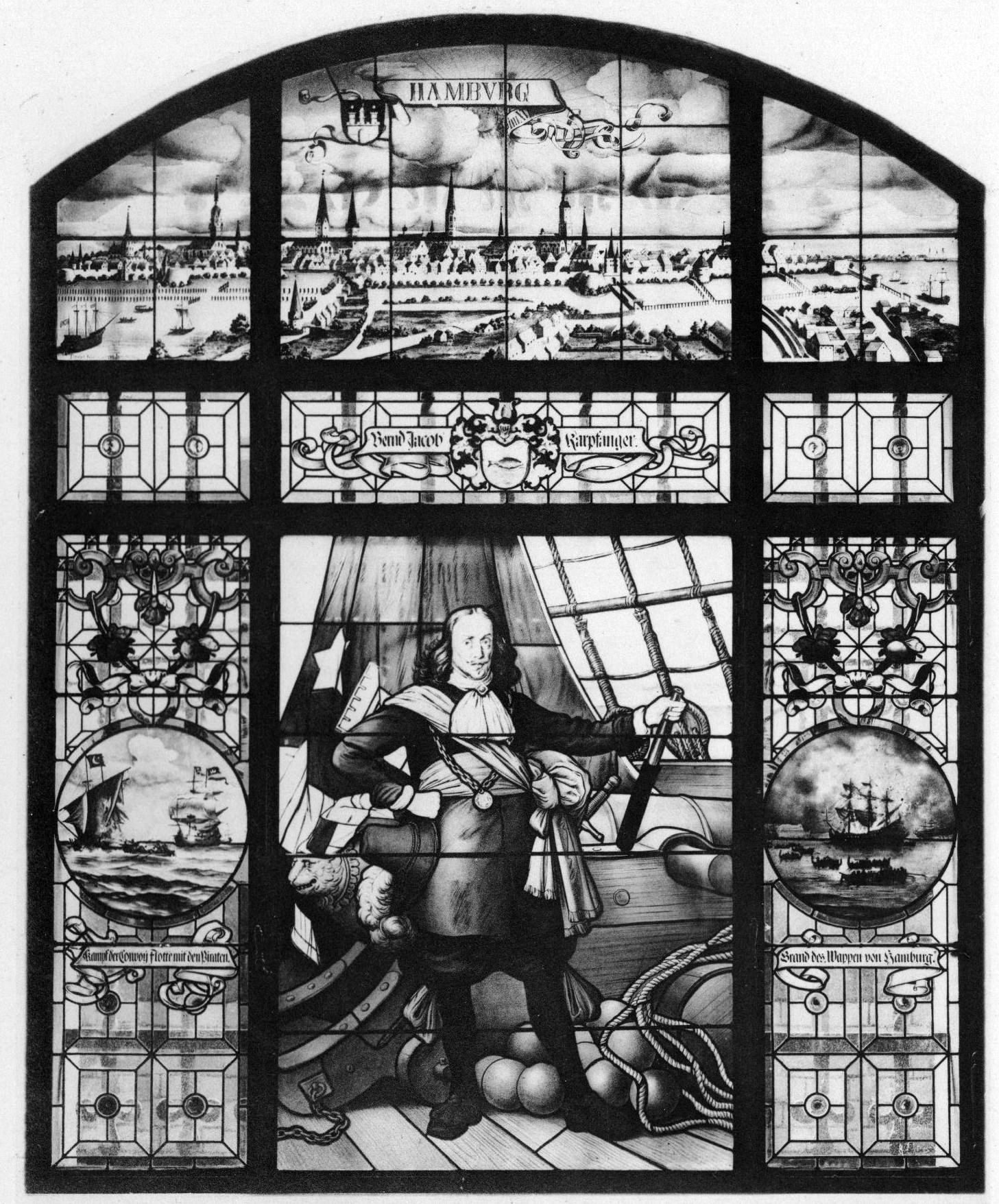 Window drawing in the cellar of the Hamburg town hall, created 1895, destroyed during World War II.